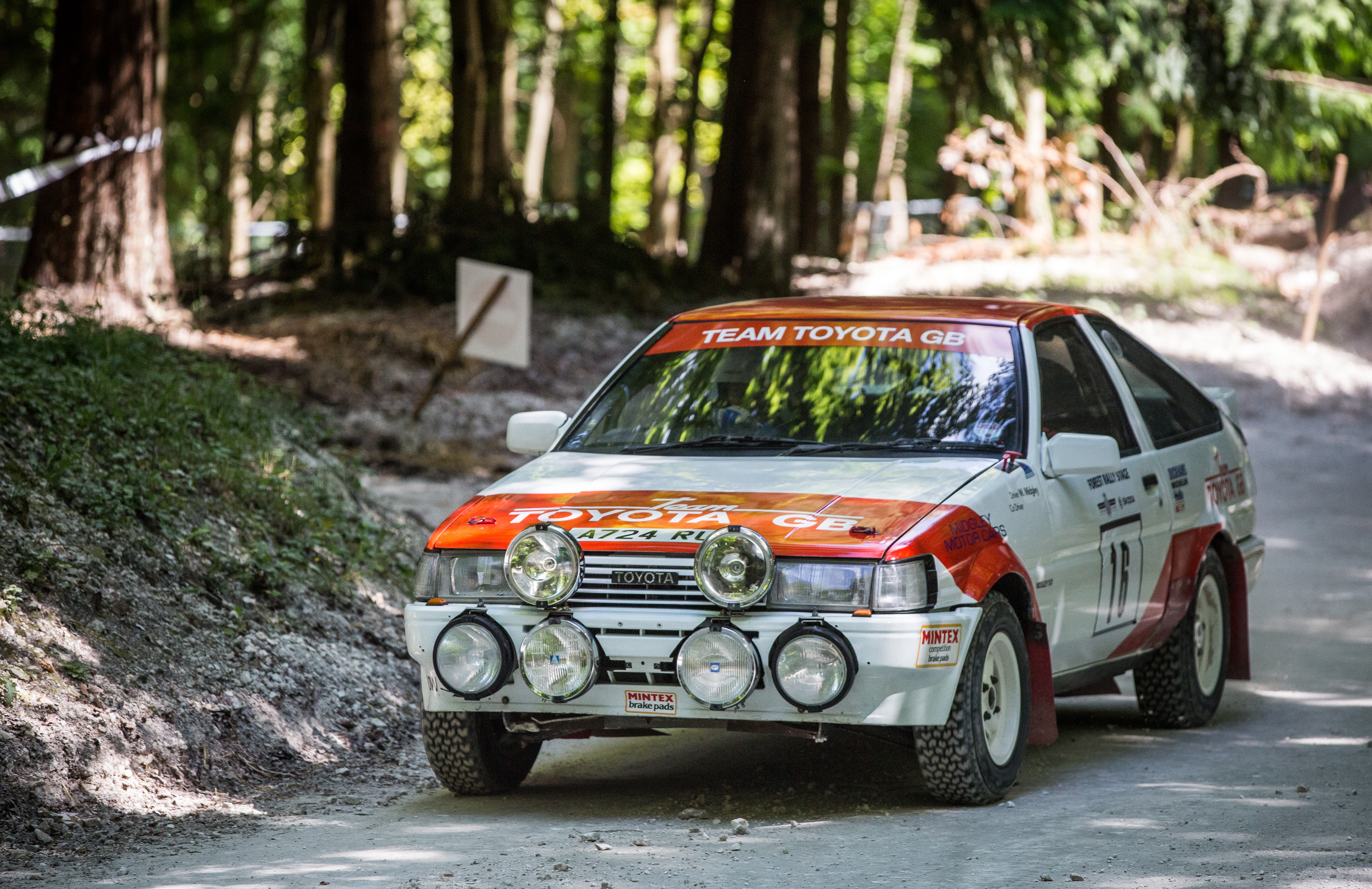 See more photos and video at